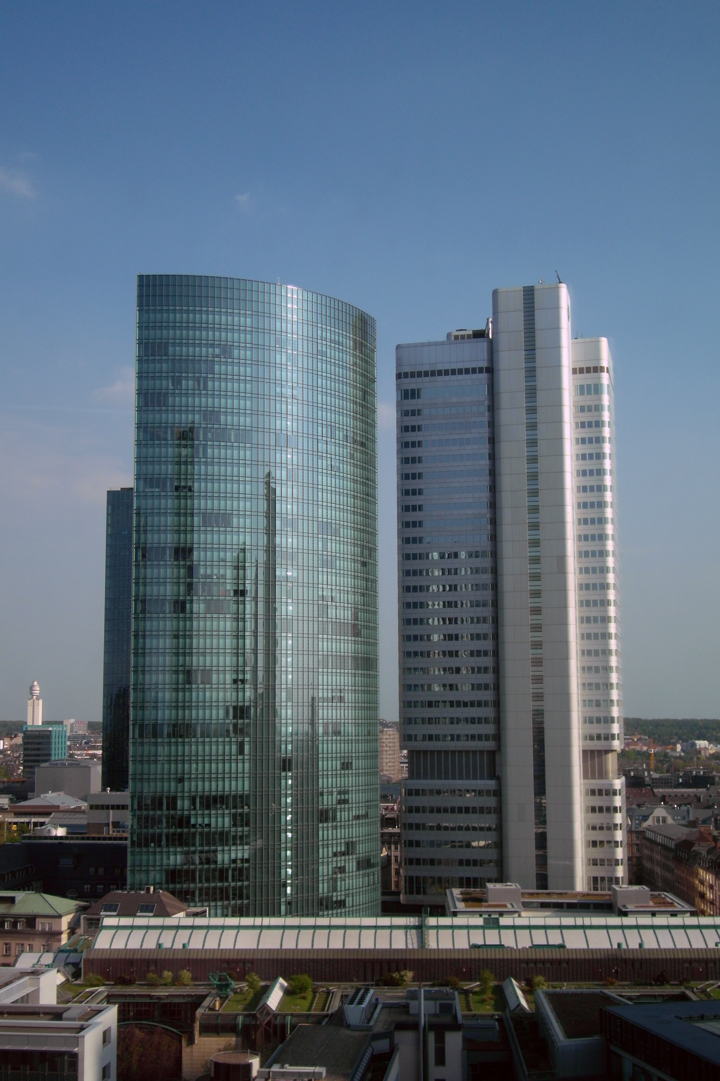 Skyper and Silver Tower in Frankfurt am Main, Germany